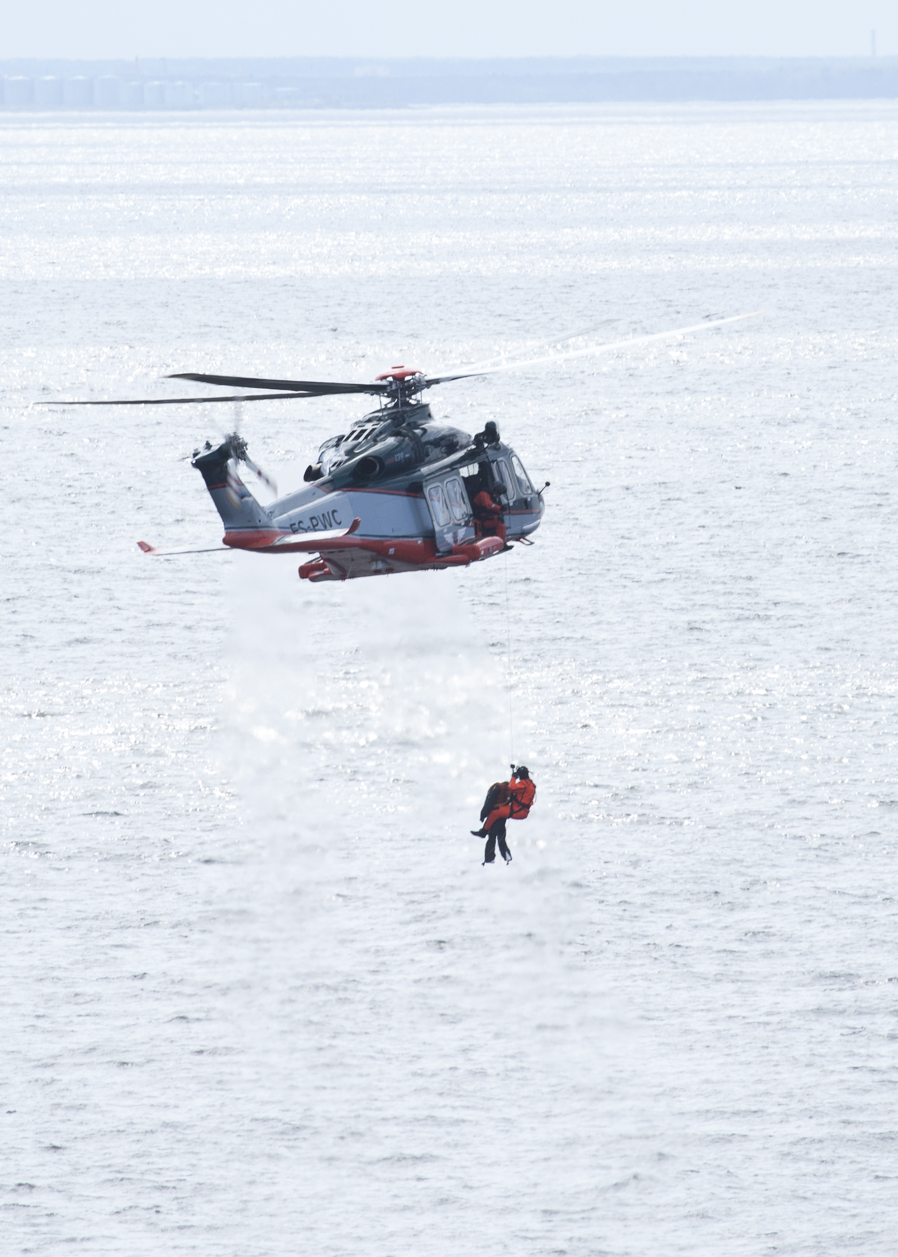 Training exercise Bold mercy.